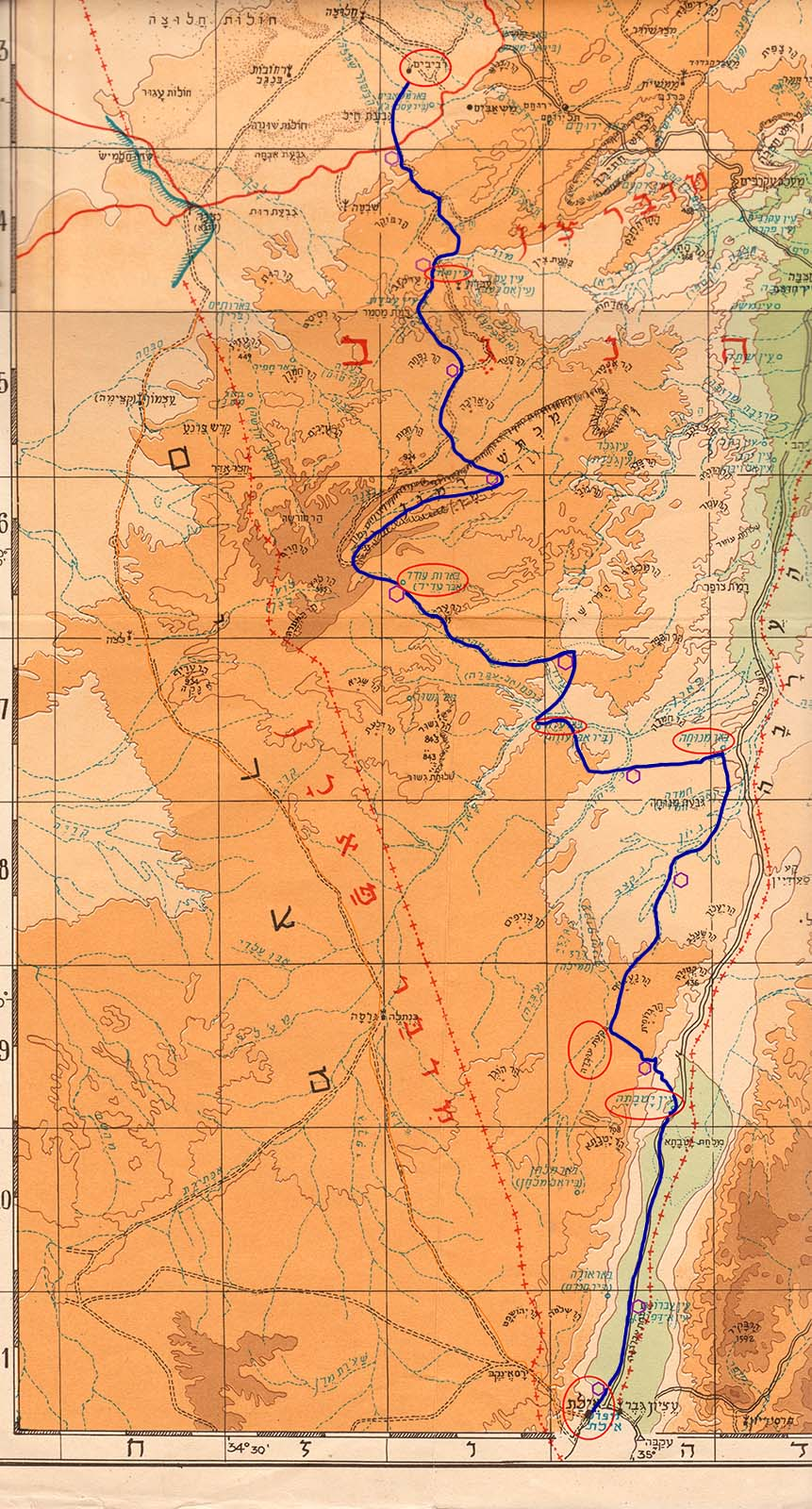 In 1945 an expedition to Um-Rashrash (Eilat) was held by the Ha'Noar Ha'Oved movement and the Palmach under the leading of Shimon Peres.